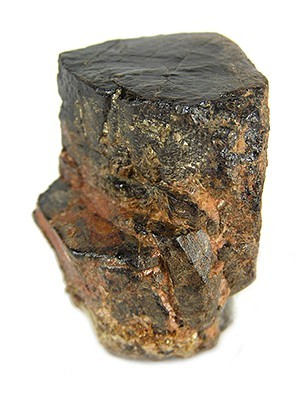 Samarskite-(Y) Locality: Spinelli Quarry (Spinelli prospect), South Glastonbury, Glastonbury, Hartford County, Connecticut, USA (Locality at ) A lustrous, 3 x 3 x 2.5 cm miniature of samarskite crystals. The Spinelli quarry (or prospect) gained recognition from early geochronology studies of U, Th & Pb isotopes, which estimated the age of this pegmatite at 260±3 million years. Identity of this particular specimen was confirmed in 2004 by x-ray analysis at the University of New Orleans. Acquired 1982 through Ward’s (Rochester, NY), ex Richard Schooner collection. 3.1 x 2.7 x 2.5 cm